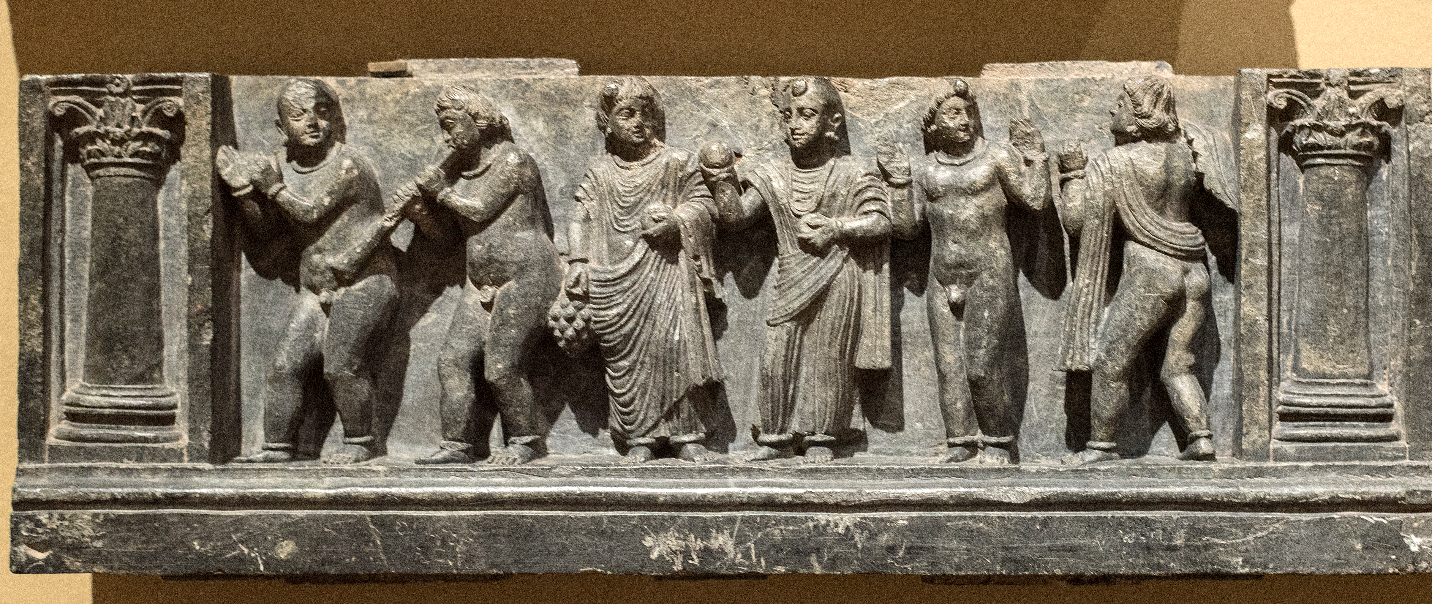 Buner reliefs bacchanalian cropped